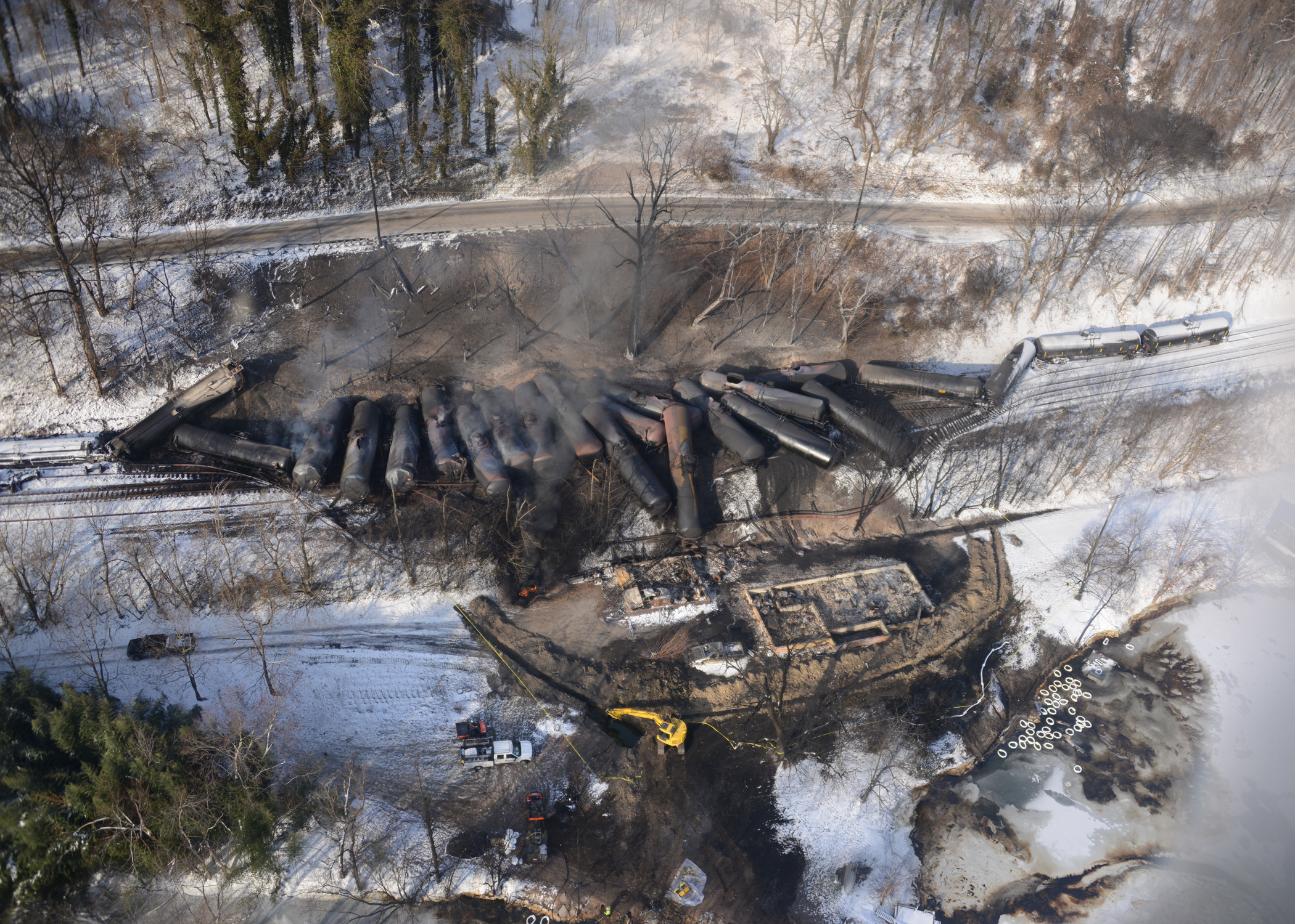 An overhead view of the response to the 2015 Mount Carbon train derailment in Mount Carbon, West Virginia. More details about this photo are available via DVIDS.